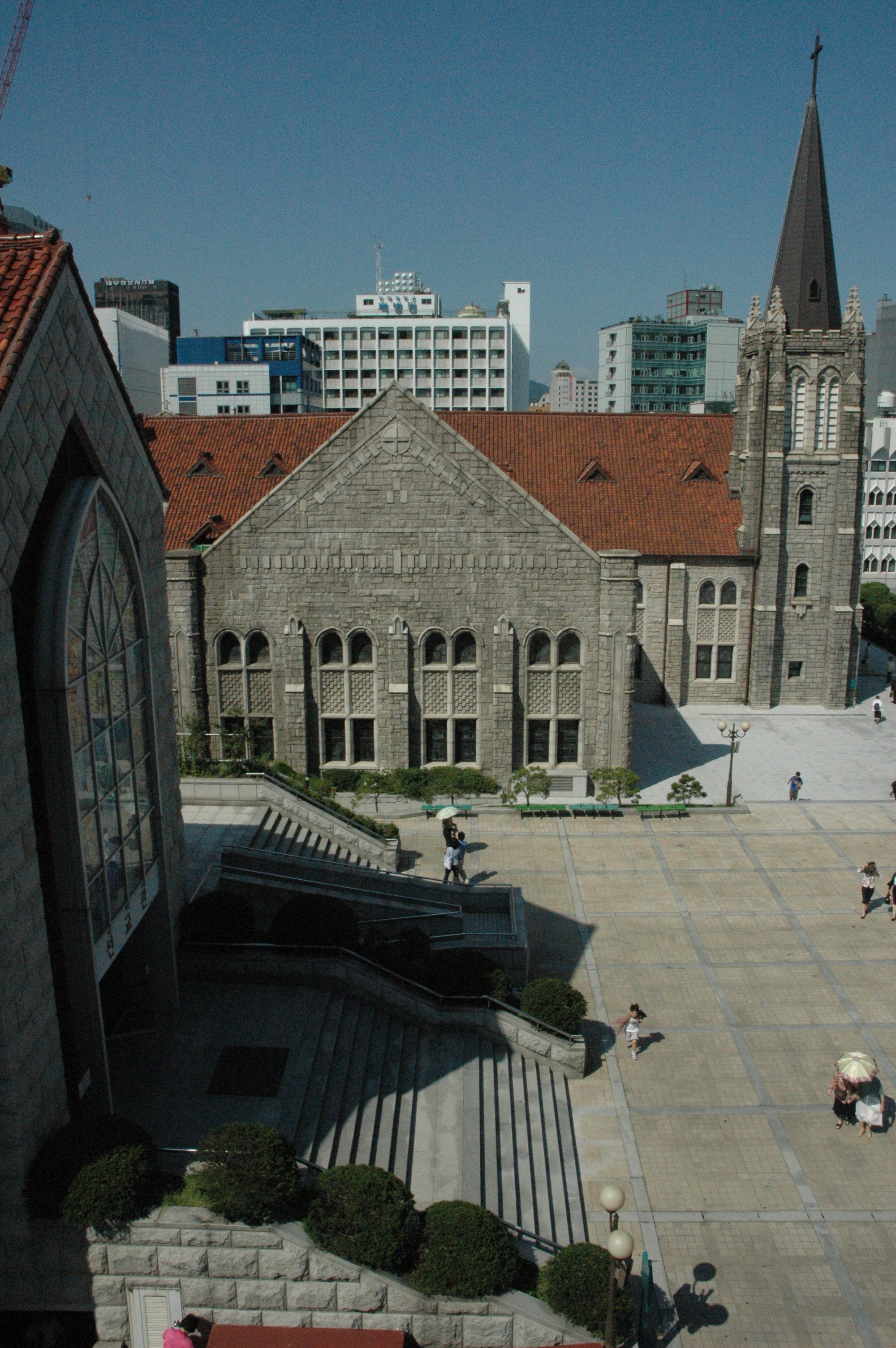 I, David Milanaik, took this photo on 09 September 2007 in Seoul, South Korea and release it into the public domain.